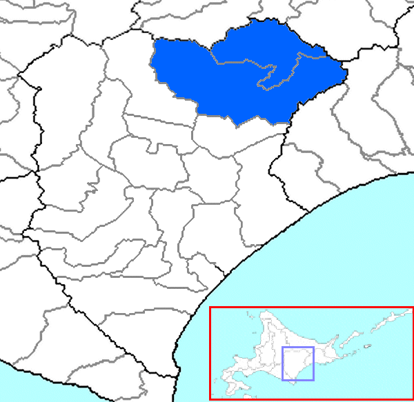 The location of Ashoro District in Tokachi Subprefecture, Hokkaido Prefecture, Japan.